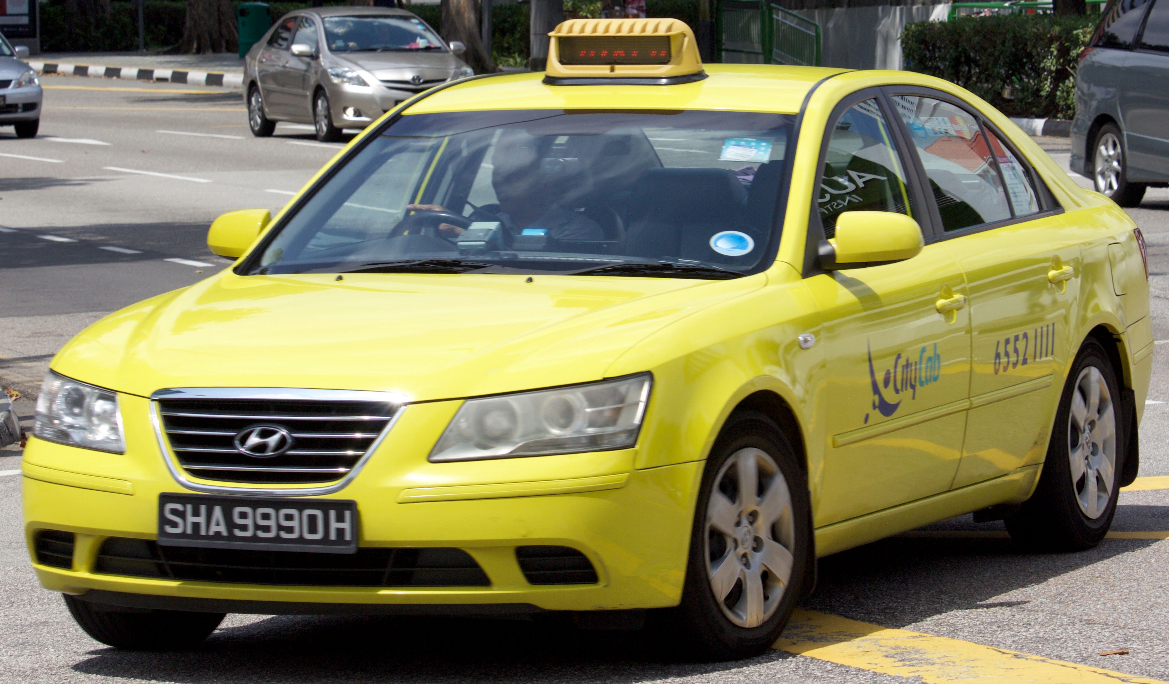 2011 Hyundai Sonata (NF) CRDi sedan, CityCab. Photographed in Singapore. Vehicle registration enquiry resultsJurisdictionSingaporeRegistrationSHA9990HChassis codeKMHET41VMBA814834Engine codeD4EAB988102Year of manufacture2011